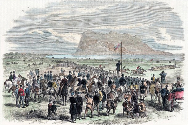 1870 image of the Calpe Steeplechase in Spain, near Gibraltar.